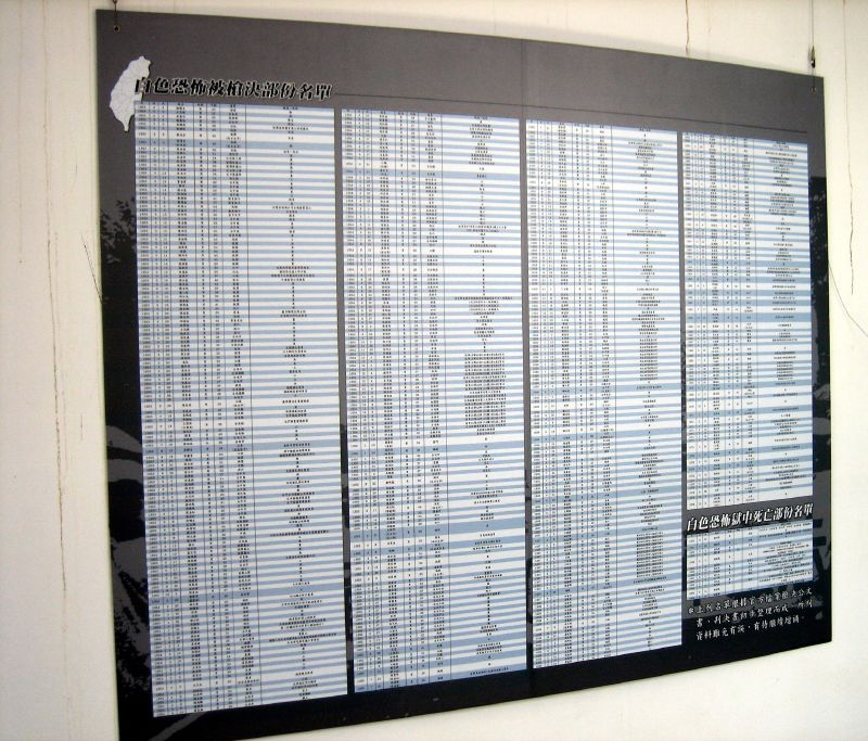 Only from 1953-1975. It looks to be 70/30 Taiwanese to Mainlander.